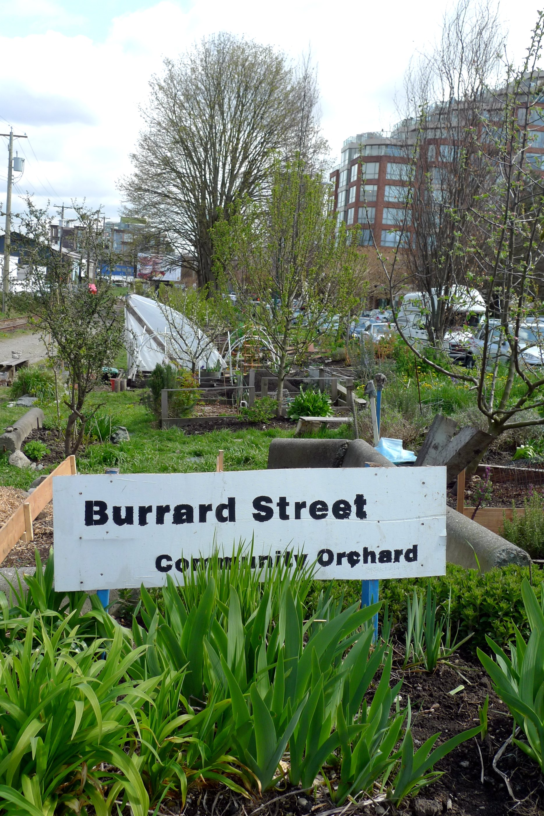 Burrard Street Community Orchard